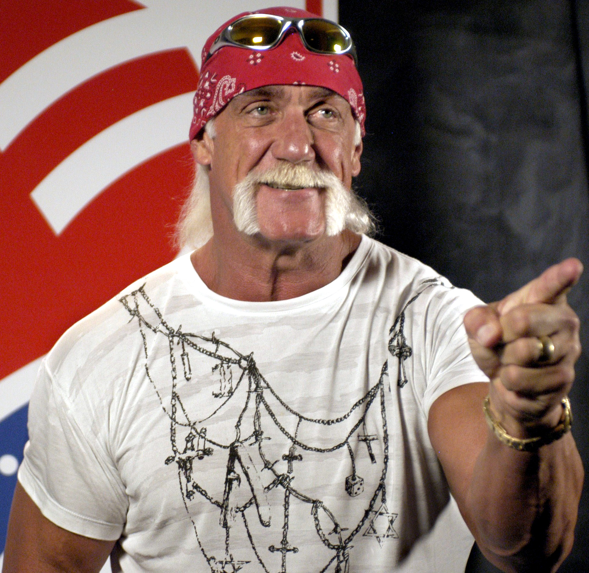 Hulk Hogan Original description: World Wrestling Entertainment star Hulk Hogan was the first to tape a message of support for the troops before the start of SummerSlam at the MCI Center in Washington on Aug. 21. Patients were special guests at the event and got a chance to meet some of their favorite wrestling personalities. This is a retouched picture, which means that it has been digitally altered from its original version. Modifications: Cropped to 1,936 × 1,885 (753 KB). Modifications made by Thivierr. The original can be found here